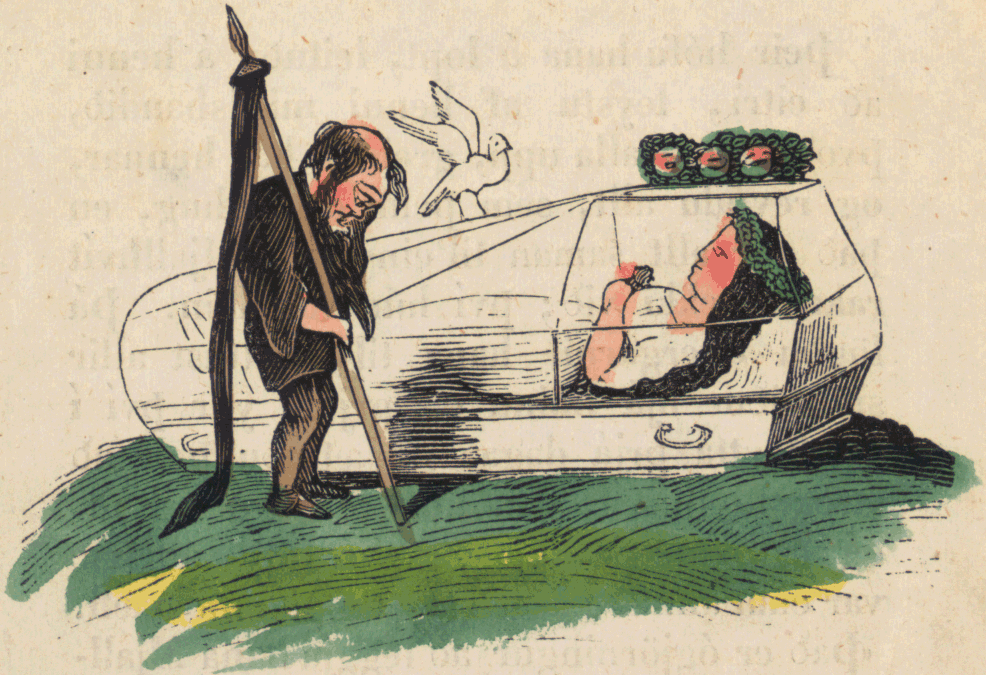 An illustration from page 26 of Snow White (Mjallhvít) from an 1852 Icelandic translation of the Grimm-version fairytale.